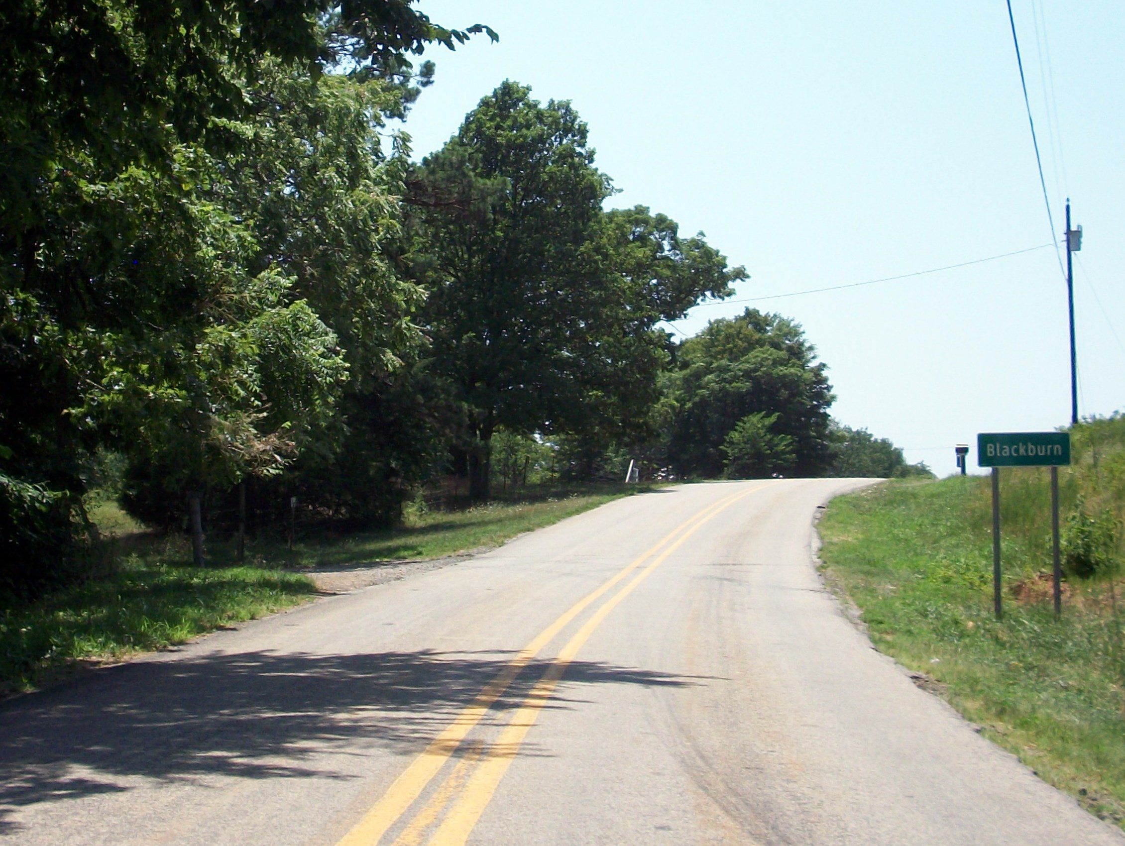 Enterance to Blackburn, Arkansas on Highway 74.